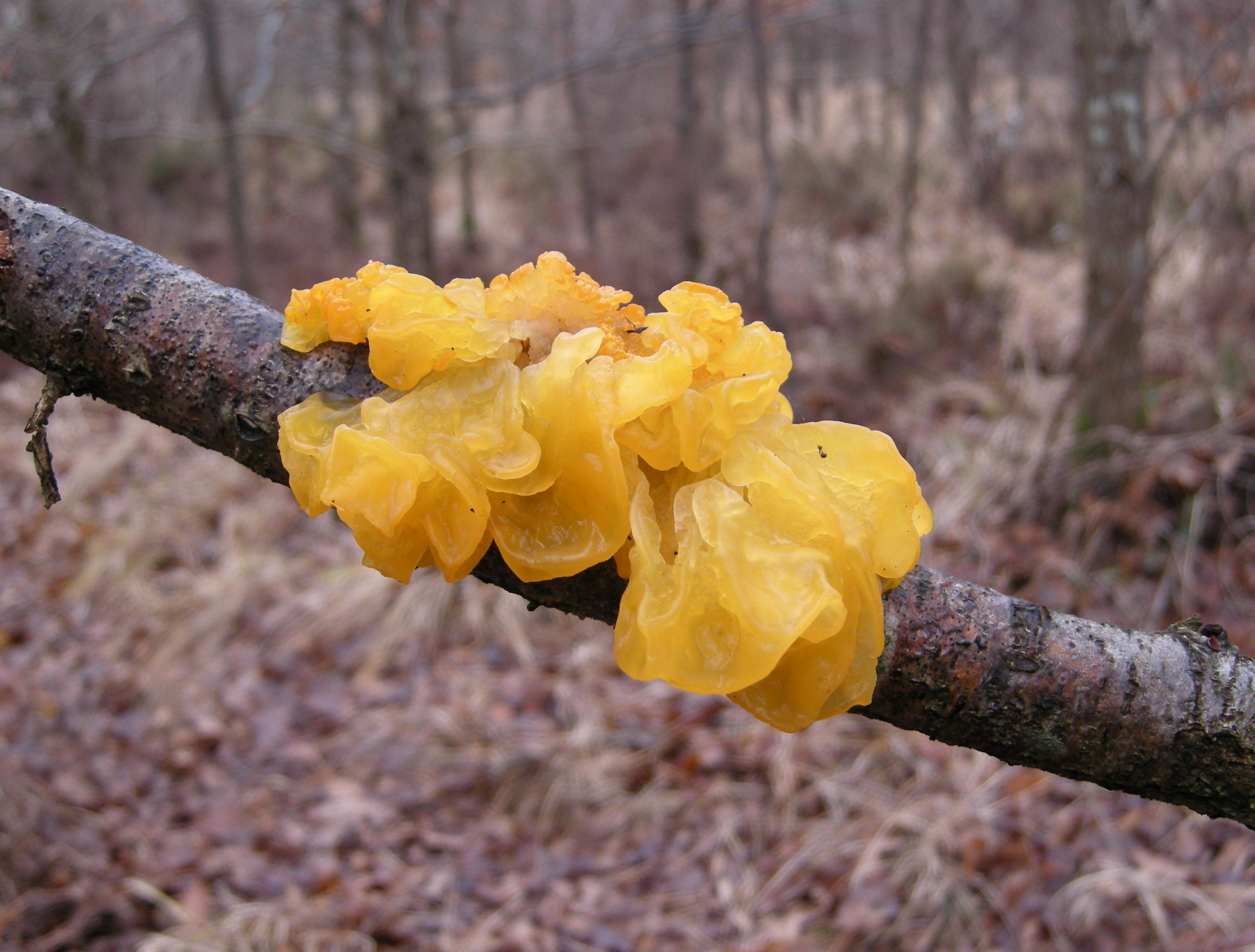 Tremella mesenterica